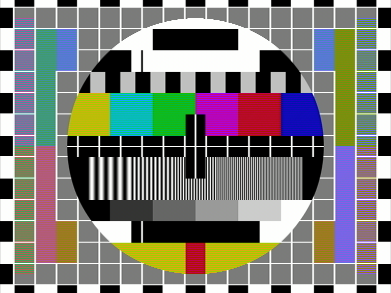 A simulation of severe phase errors in PAL color decoding shown applied to a PM5544 test pattern. In this example the chroma delay line has been disabled, making the phase errors cause Hanover bars. The outermost columns of the test pattern contain color signals that do not alternate phase between lines unlike a normal PAL signal; if the phase is correct those signals will have complementary color from line to line, and cancel out if a delay line is present.